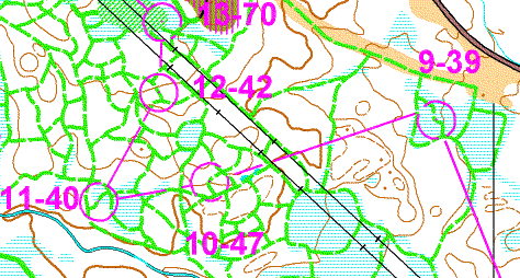 Excerpt from a ski-orienteering map. The map shows the final part of the course in the men's relay competition in the Norwegian National Championship 2005.